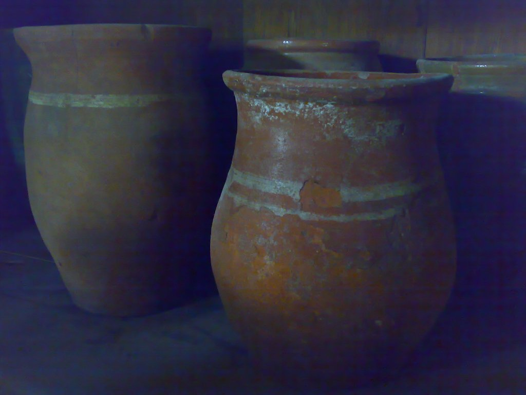 Latgale pottery.